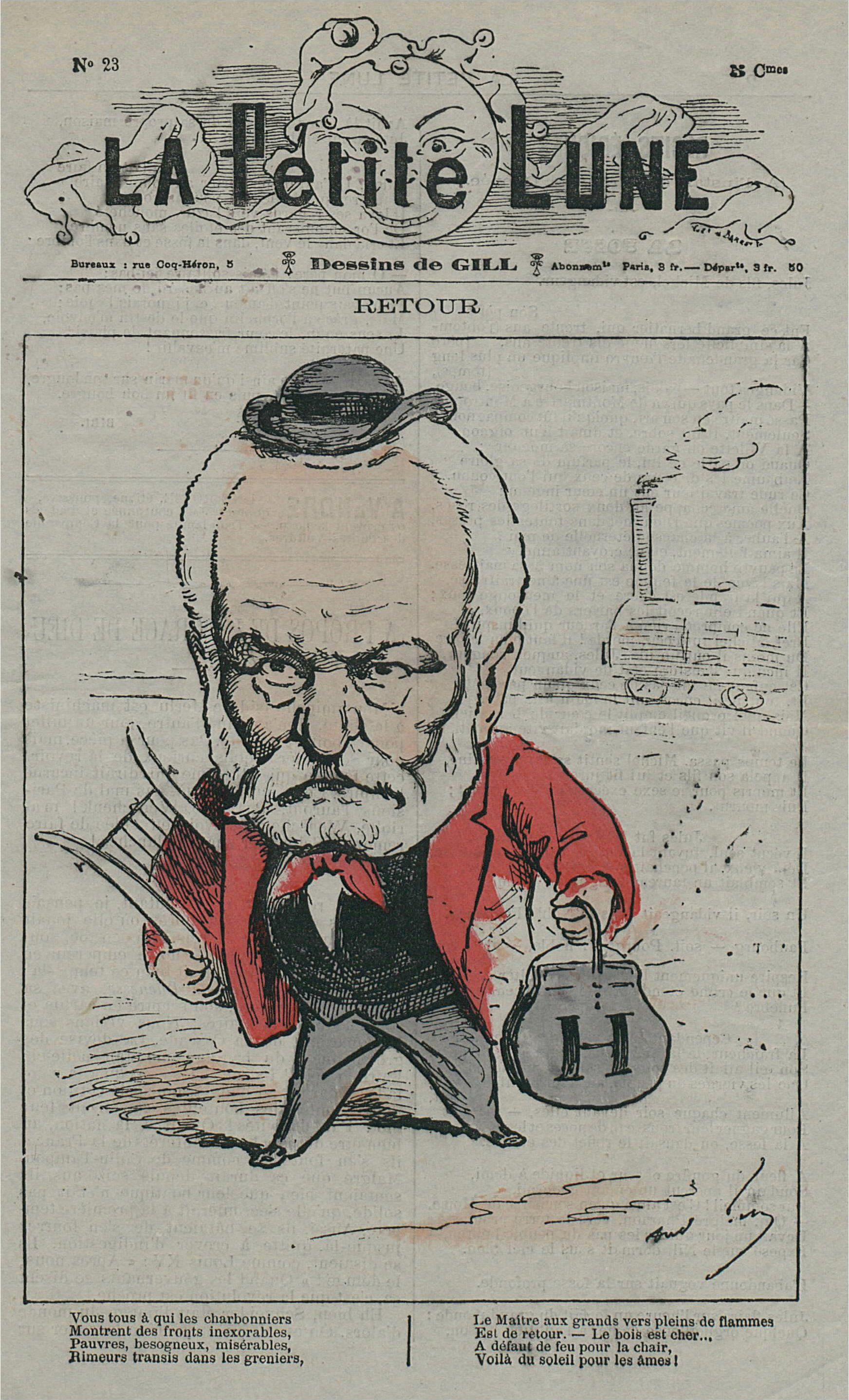 Caricature of Victor Hugo in La Petite Lune